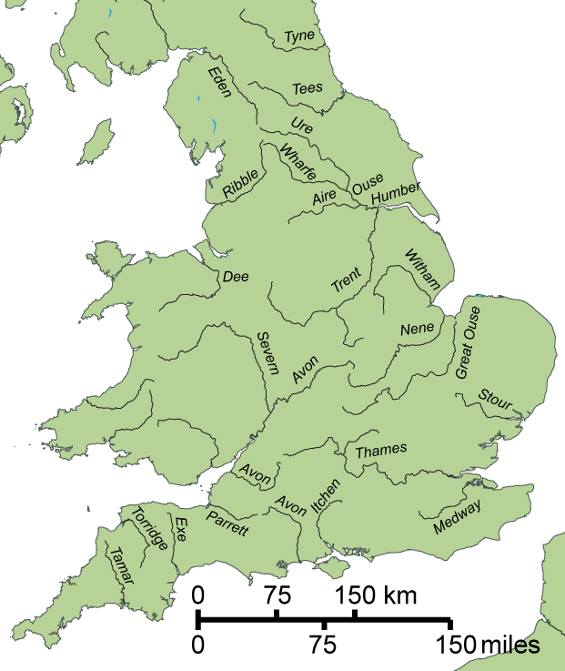 A variant of Image:Gb4dot_rivers.svg, indicating the rivers of England only.